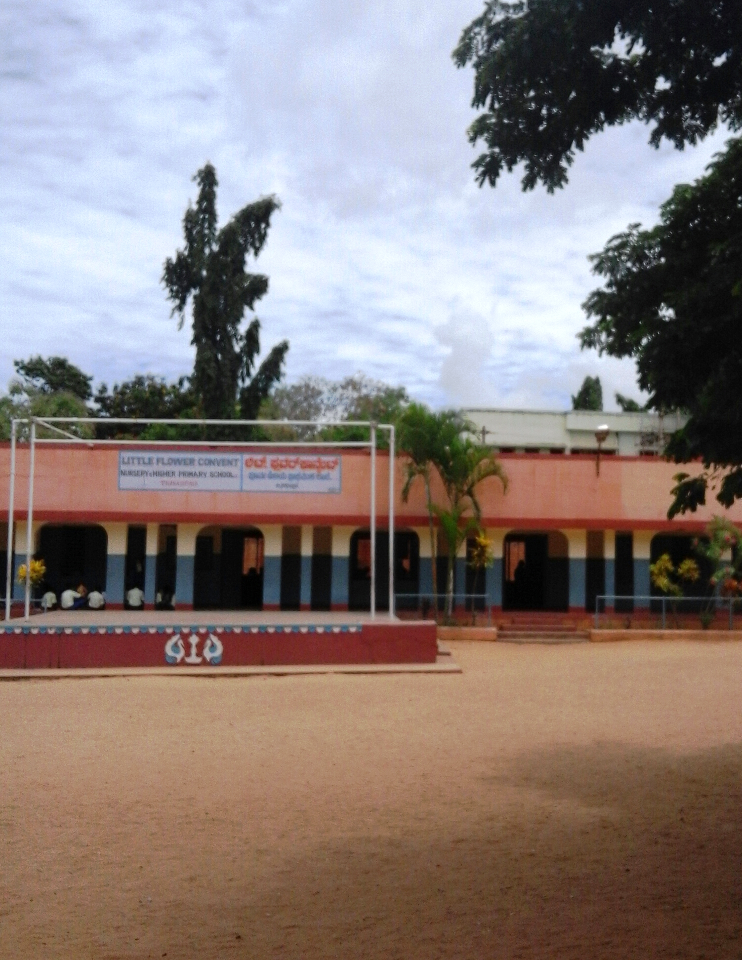 Tirumakudal Narsipur Town, Mysore district, Karnataka state, India.